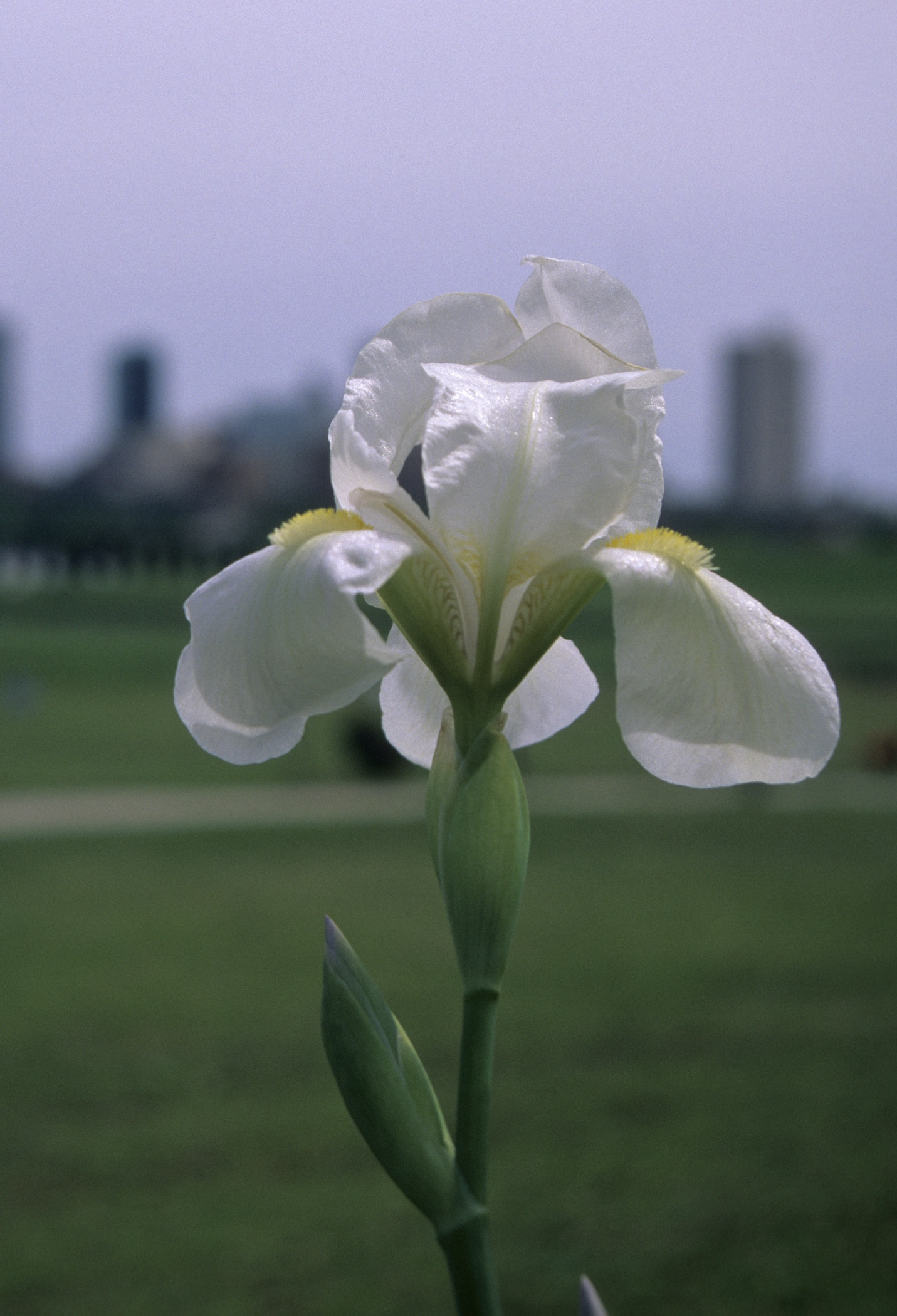 Iris albicans, photographed in a cemetery north of downtown Fort Worth, Texas